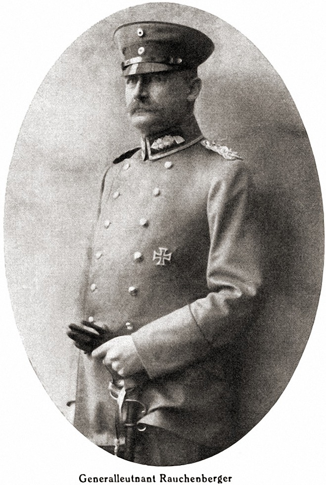 prussain general Otto von Rauchenberger